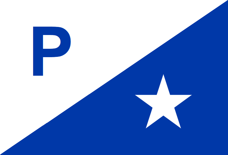 Flag flown on Peary's ships